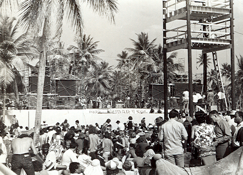 Opening band at Mar Y Sol - Rubber Band